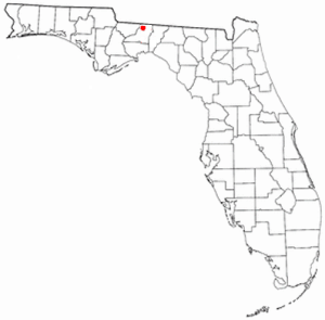 File exists on other Wikipedia pages. It is a copy yet modified for the location.